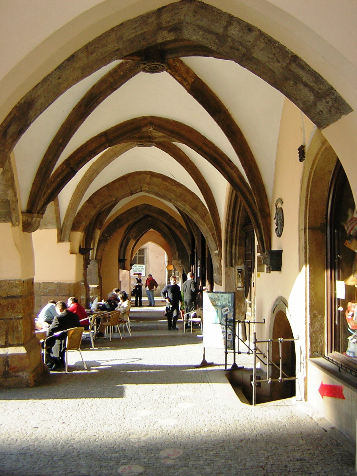 Praha, Old Town Square, gothic gallery before the Tyn church (late 14th century)